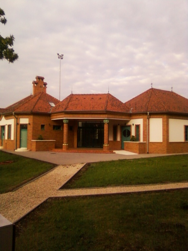 The new synagogue in Békéscsaba, Hungary